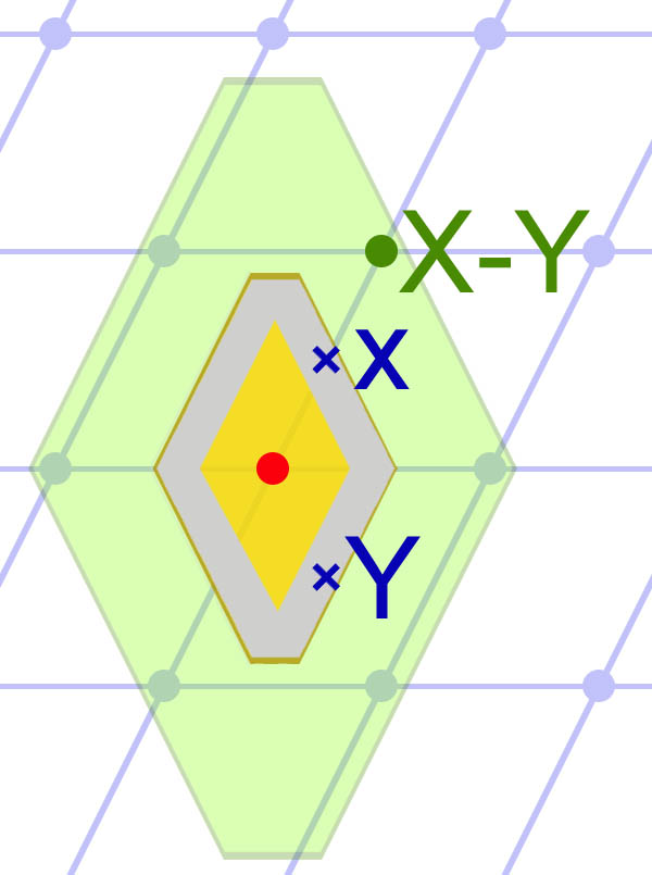 Minkowski's theorem's illustration, about geometrical arithmetics.